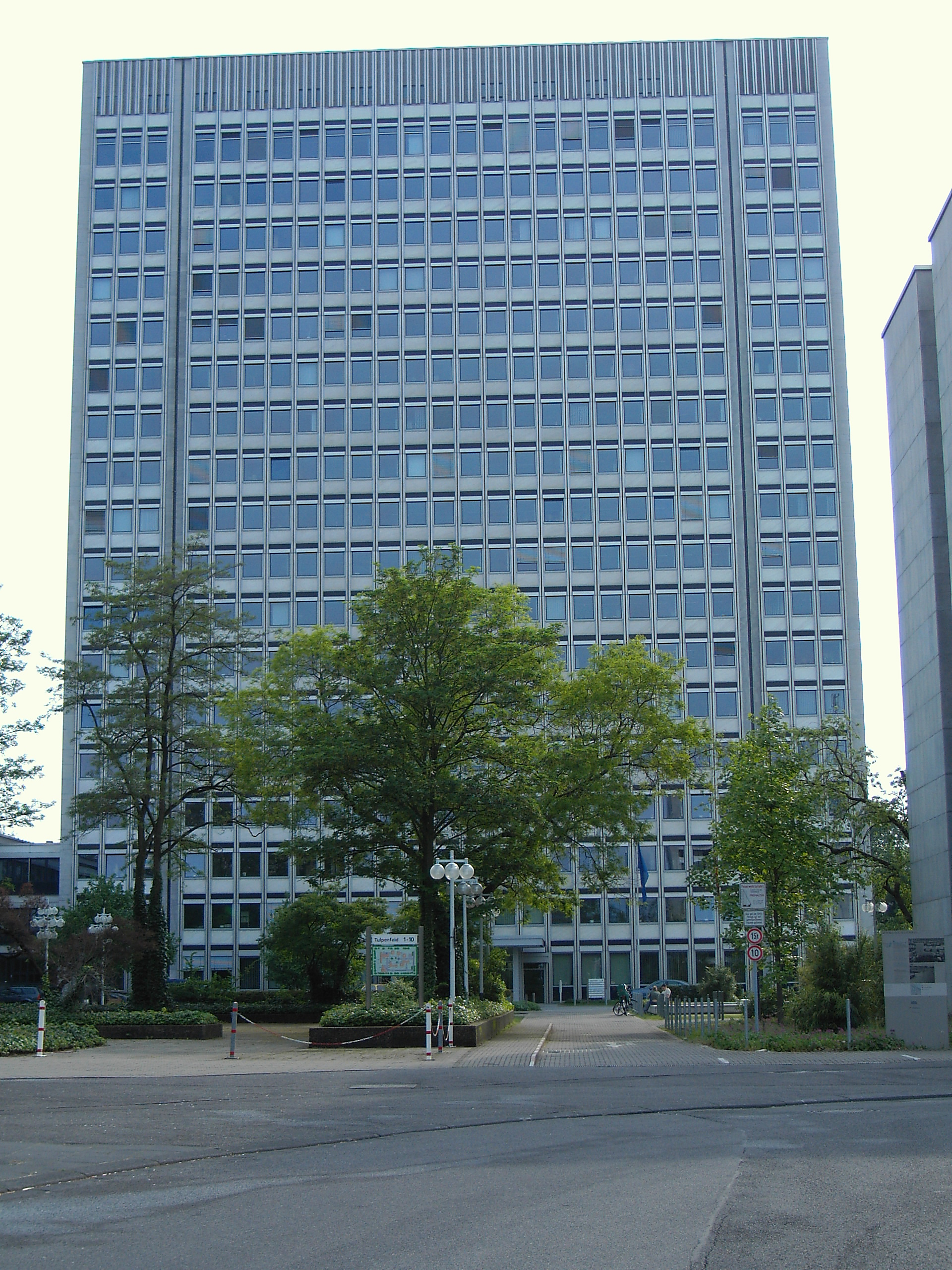 Seat of the “Federal net agency” (german Bundesnetzagentur) in Bonn.